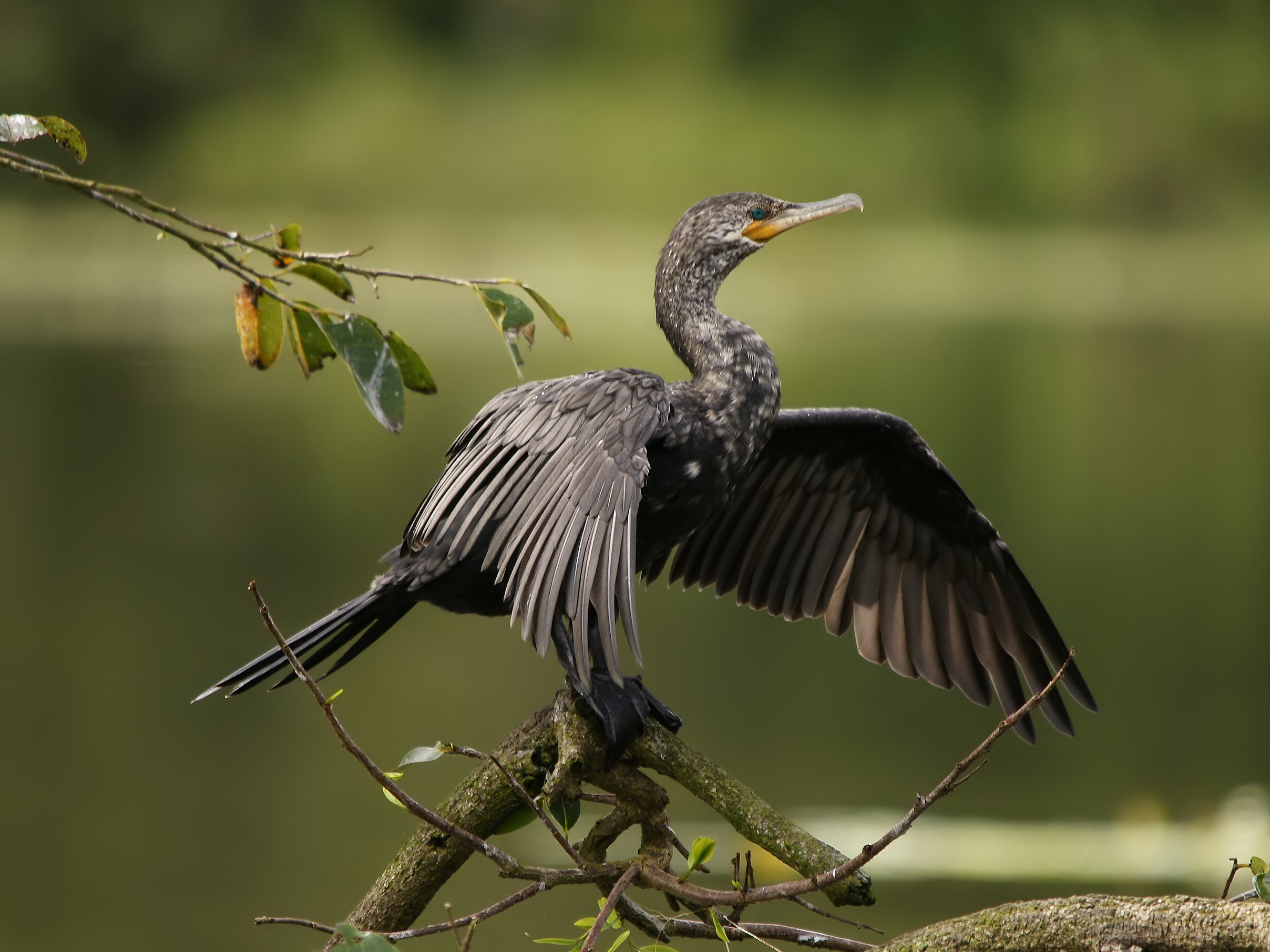 Neotropic Cormorant at Caño Negro, Costa RicaImage taken from a small boat.